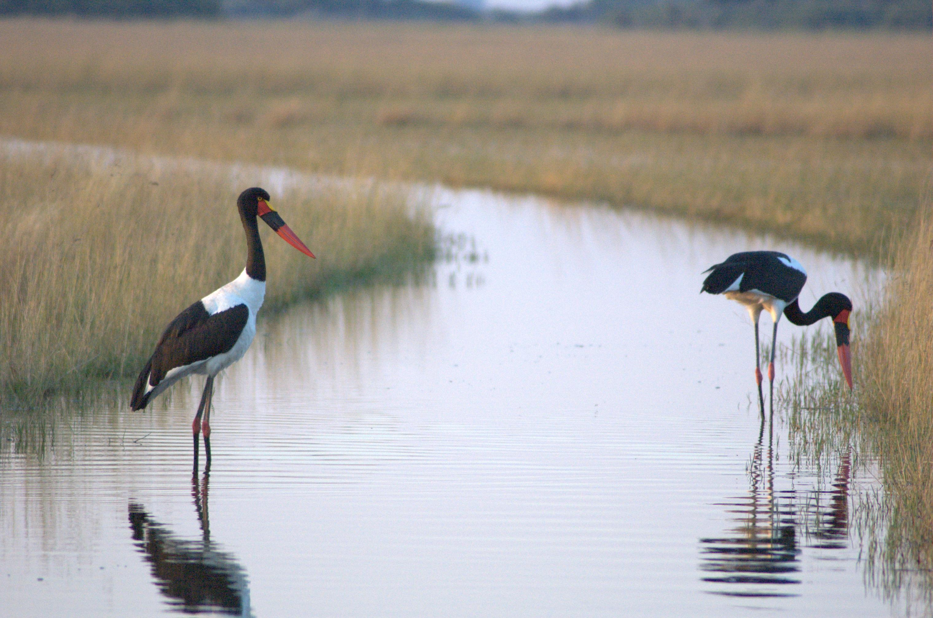 Опис файлу Ephippiorhynchus senegalensis. A pair of Saddle-billed Storks in the Okavango Delta. Picture taken in May, 2005. Original is available in raw format (Nikon) under a different license.пан Бостон-Київський 01:13, 17 March 2006 (UTC)